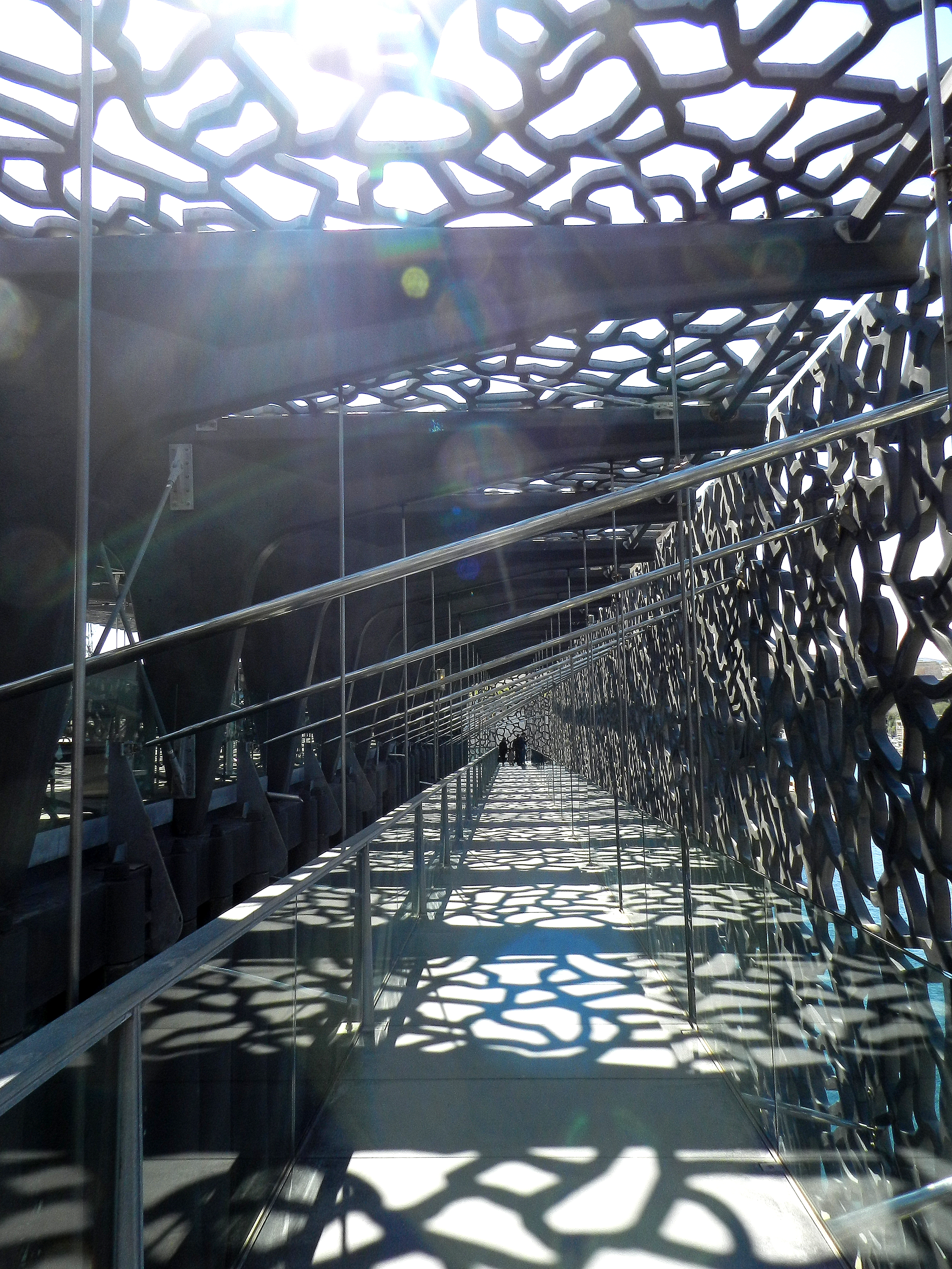 MUCEM Museum, Marseille, France